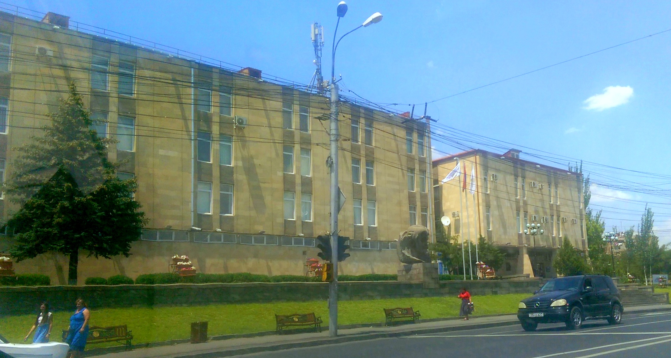 Malatia-Sebastia district administration, Yerevan, Armenia.